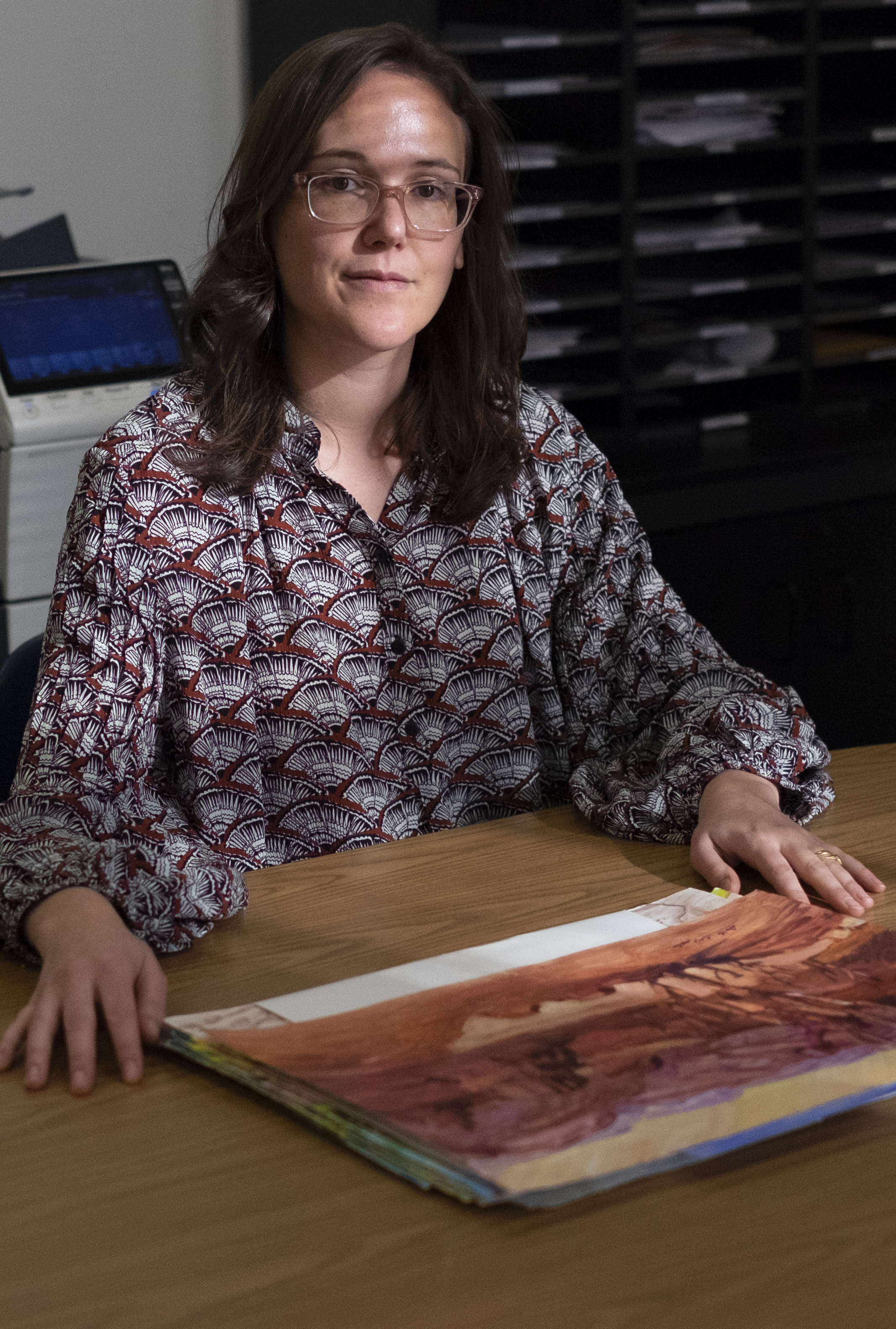 Erin Thompson with examples of art from Guantanamo at John Jay College.